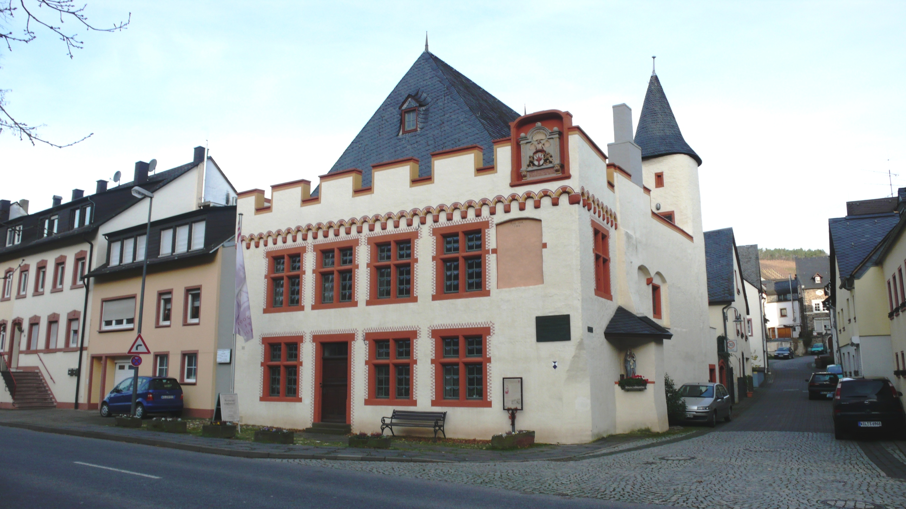 Birth-place of Nicholas of Cusa in Kues (Germany)